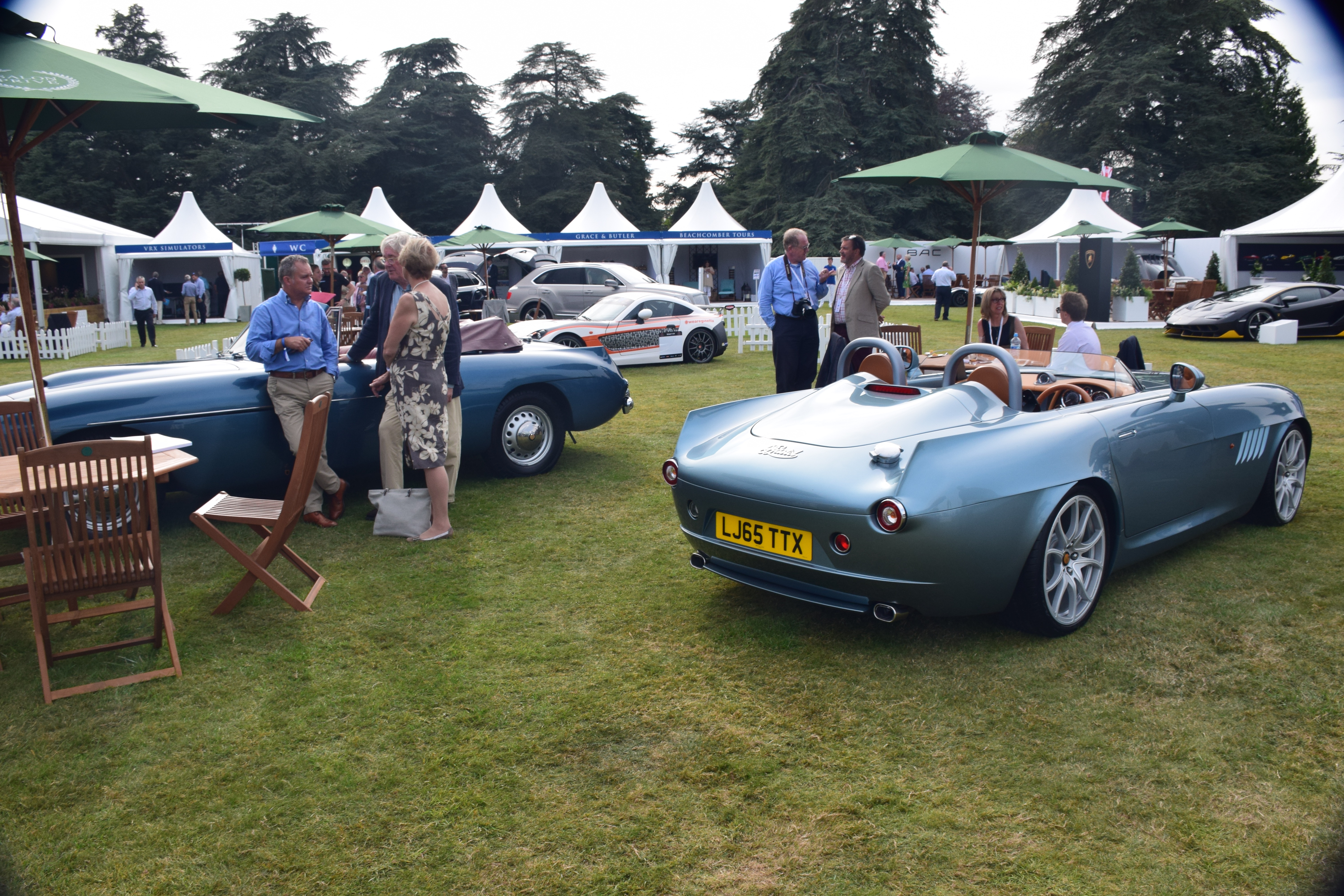 A Bristol Bullet and a Bristol 405 Drophead coupé on display at Salon Prive'.